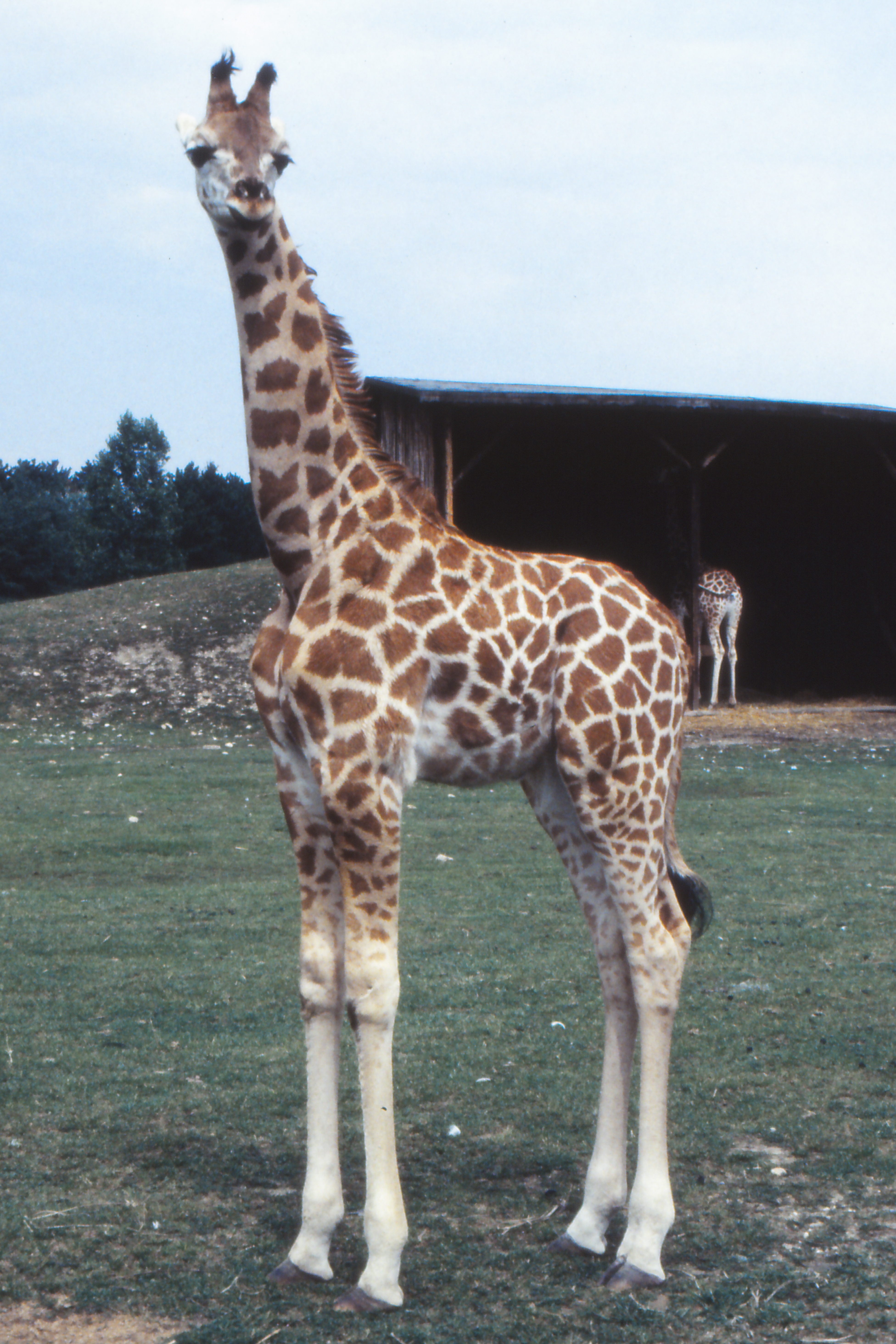 Safaripark Gänserndorf 1985